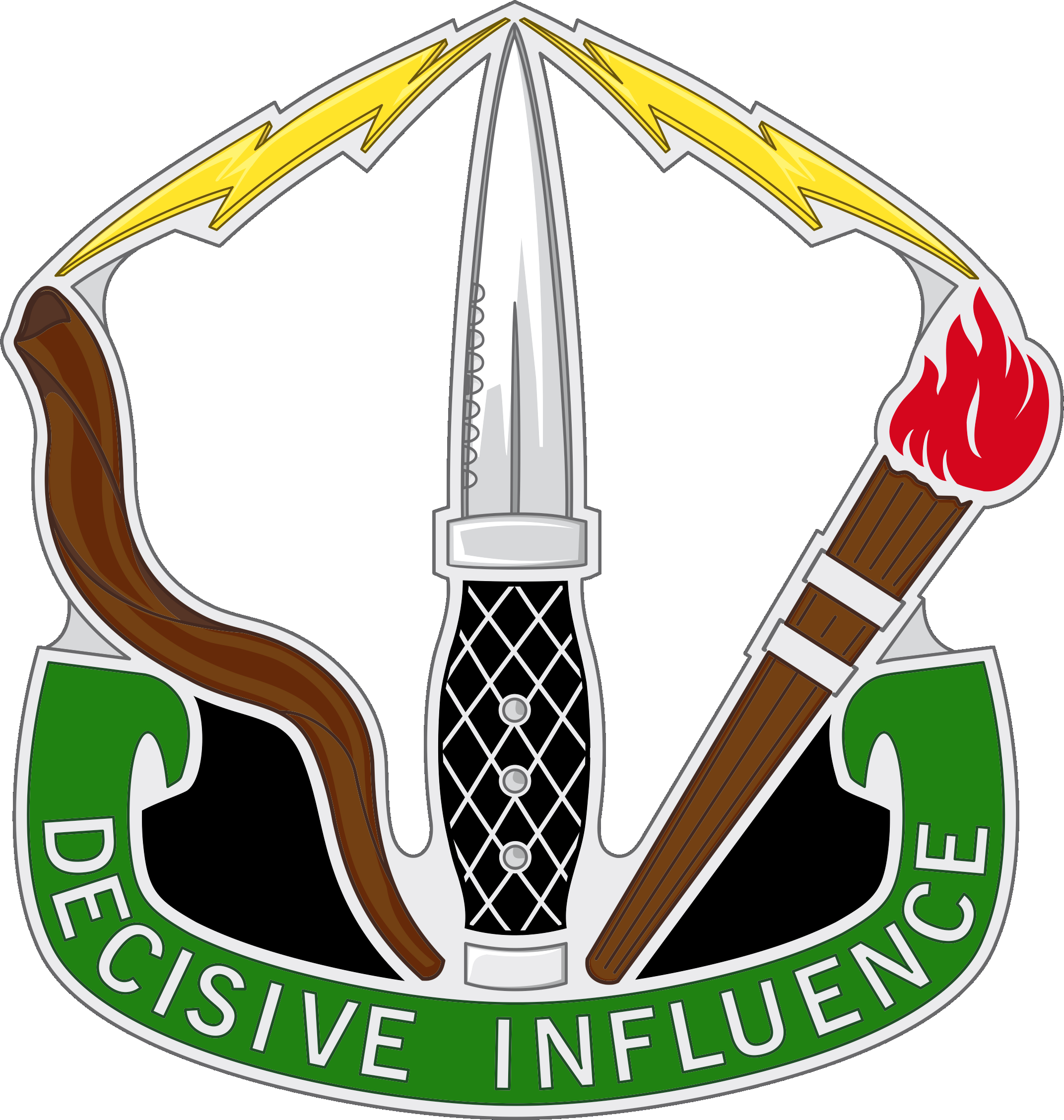 The U.S. Army's 8th Military Information Support Group Distinctive Unit Insignia